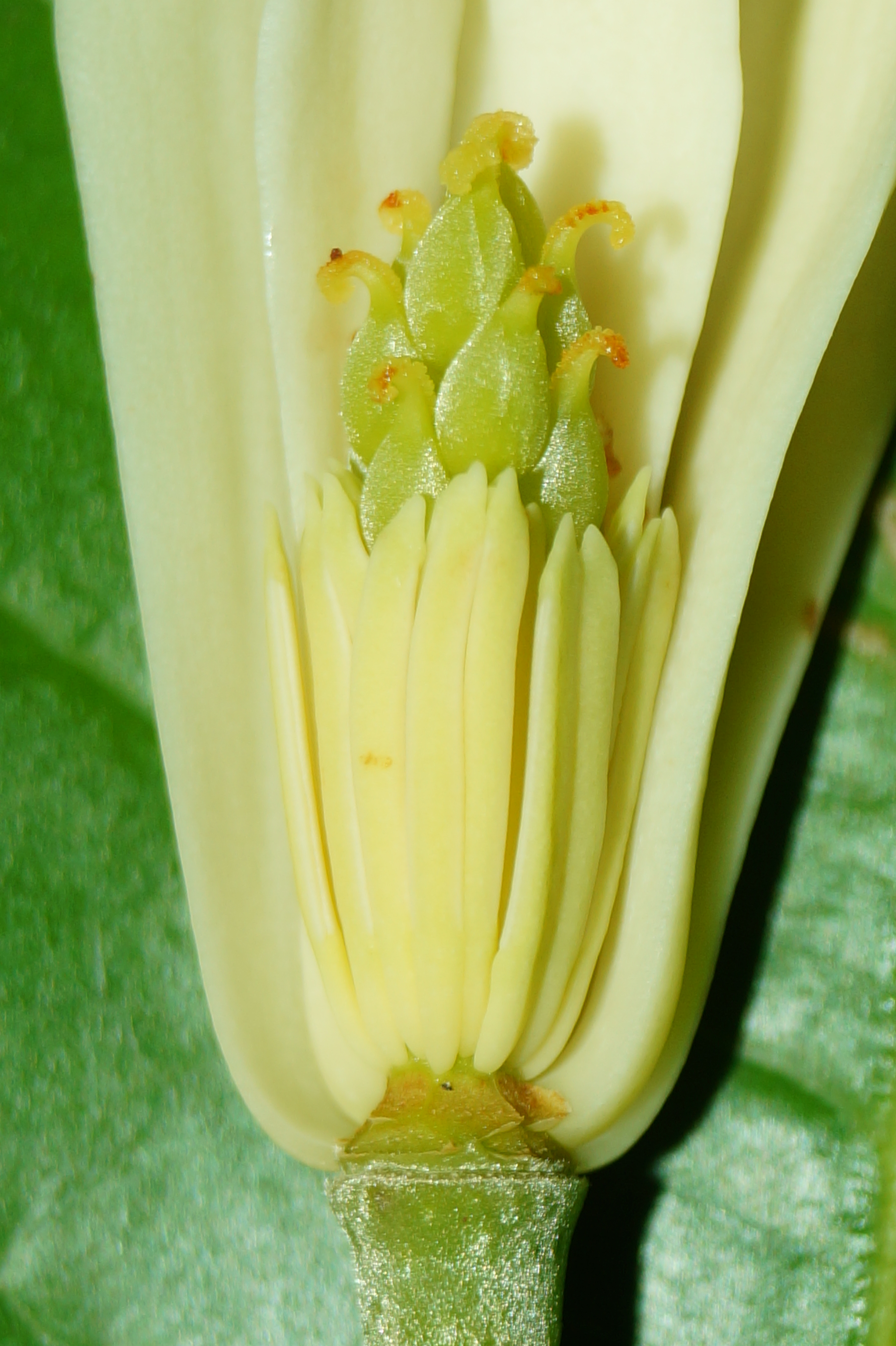 inflorescence of magnolia champaca flower